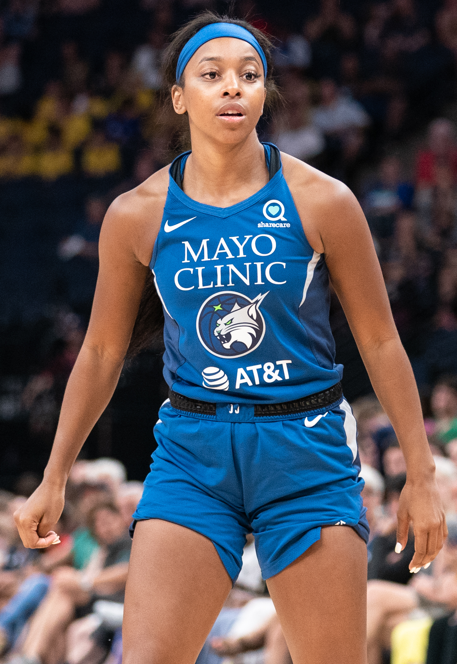 Minnesota Lynx vs Phoenix Mercury at Target Center in Minneapolis, MN on July 14 2019; the Lynx won the game 75-62.